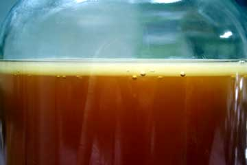 nirinjan singh, own photo